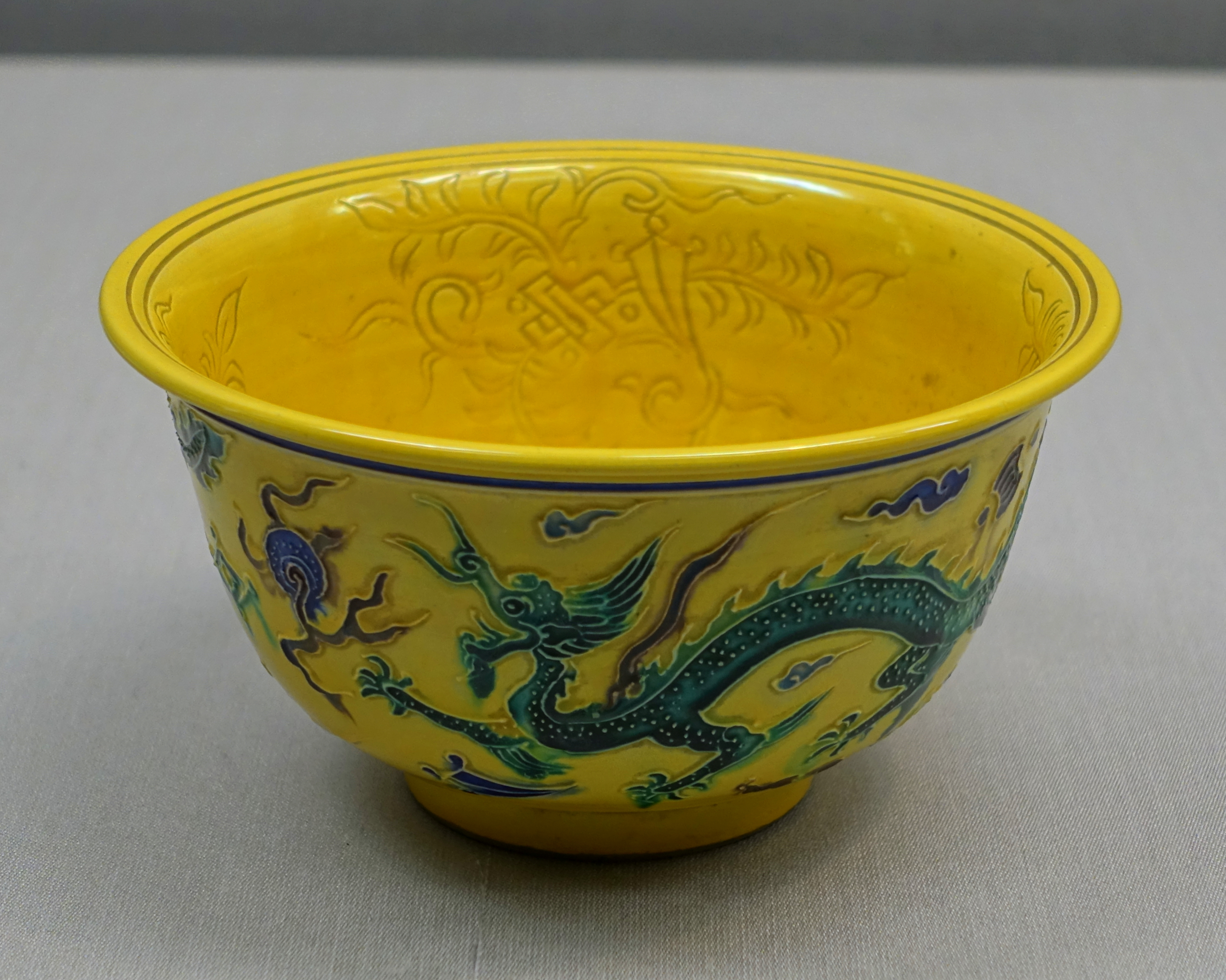 Exhibit in the Tokyo National Museum, Tokyo, Japan. This work is old enough so that it is in the public domain.